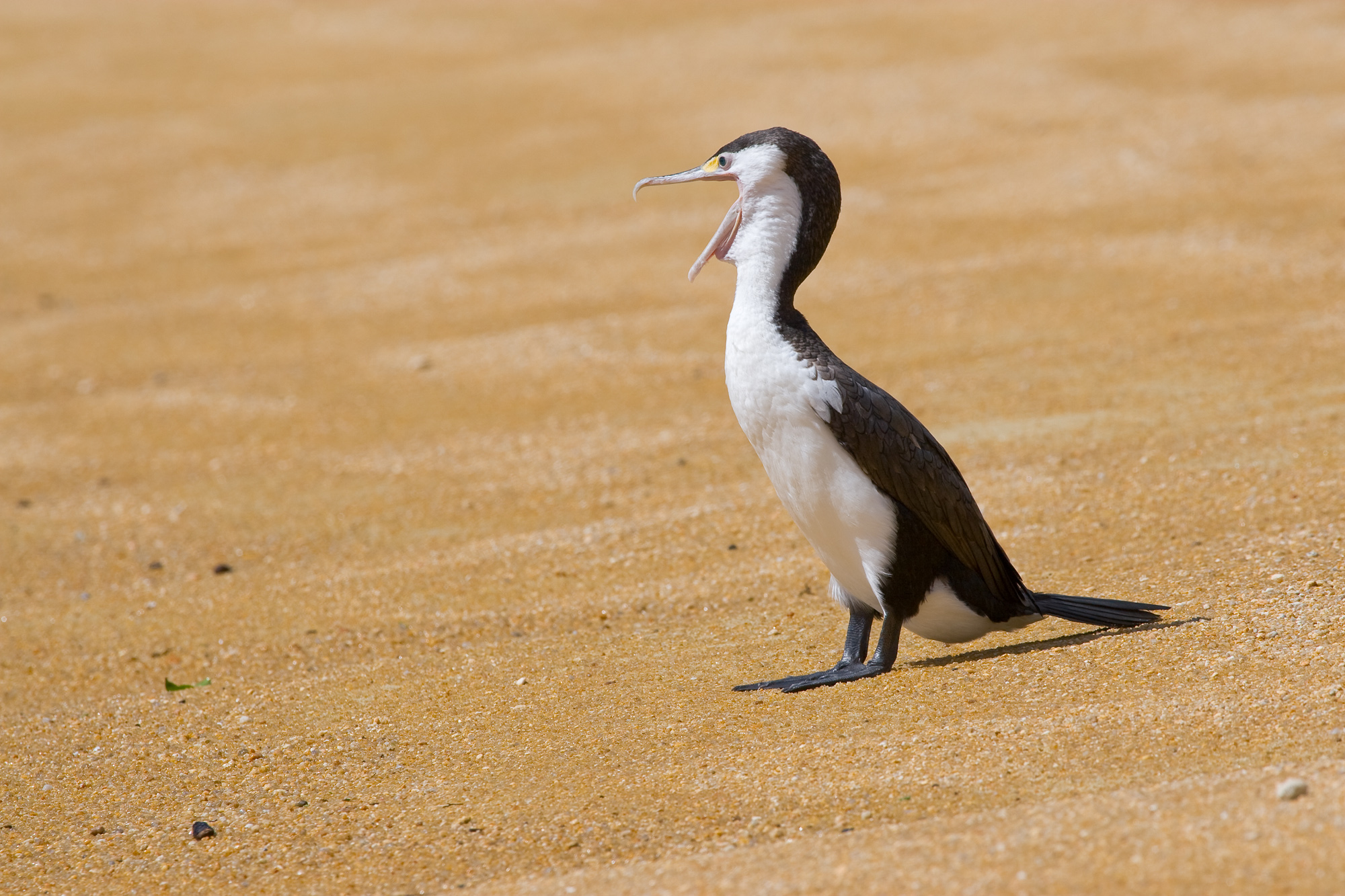 A Pied Cormorant in Te Pukatea Bay in Abel Tasman National Park, New Zealand.